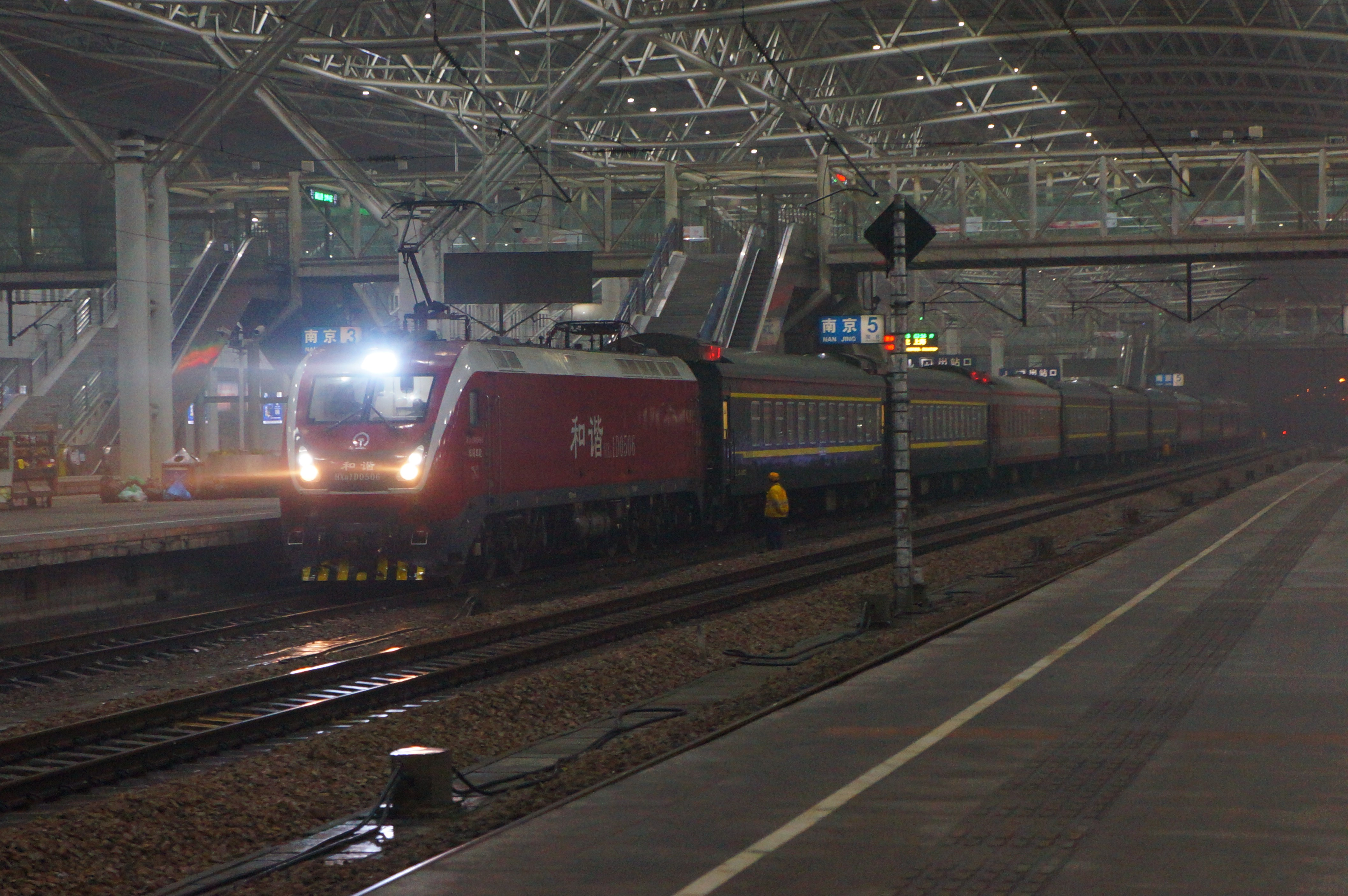 201812 HXD1D-0506 hauls K233 enters into Nanjing Station